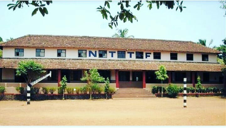 tly nttf